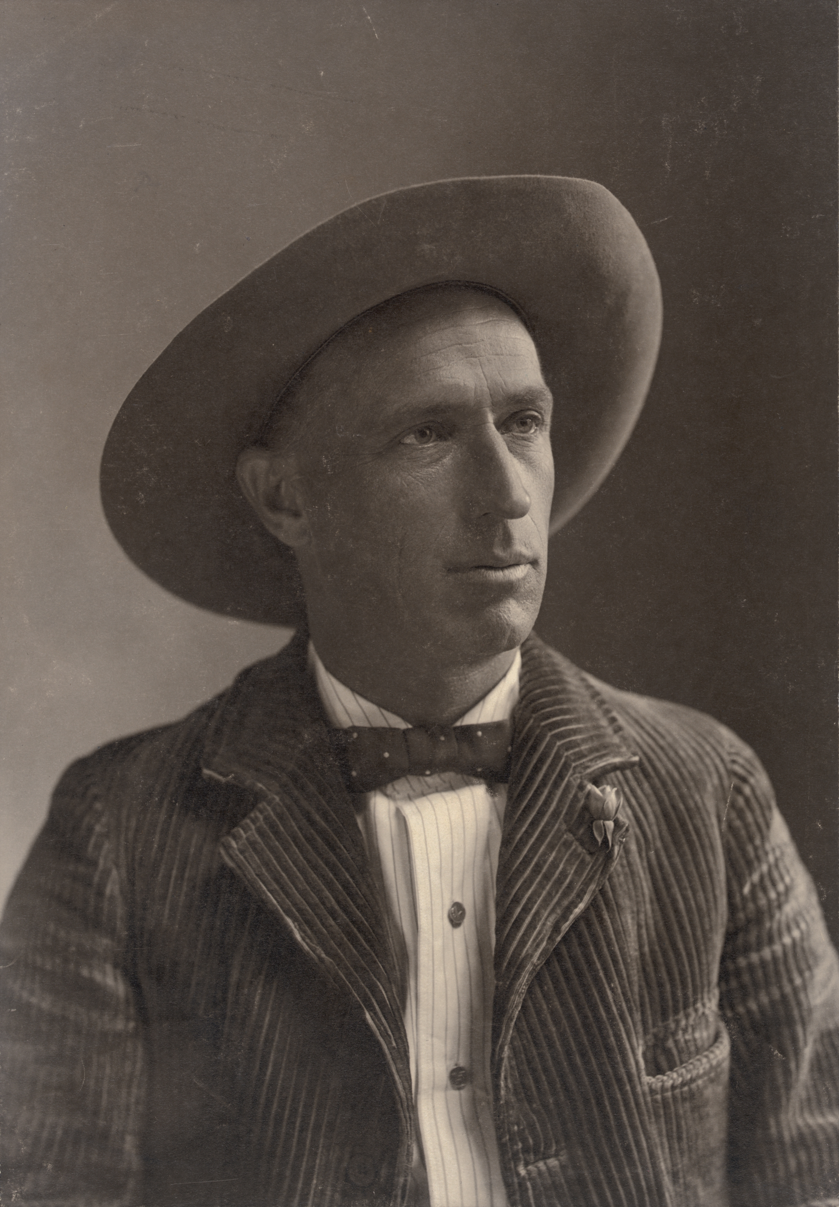 Charles Fletcher Lummis (1859 - 1928), an American journalist and Indian activist